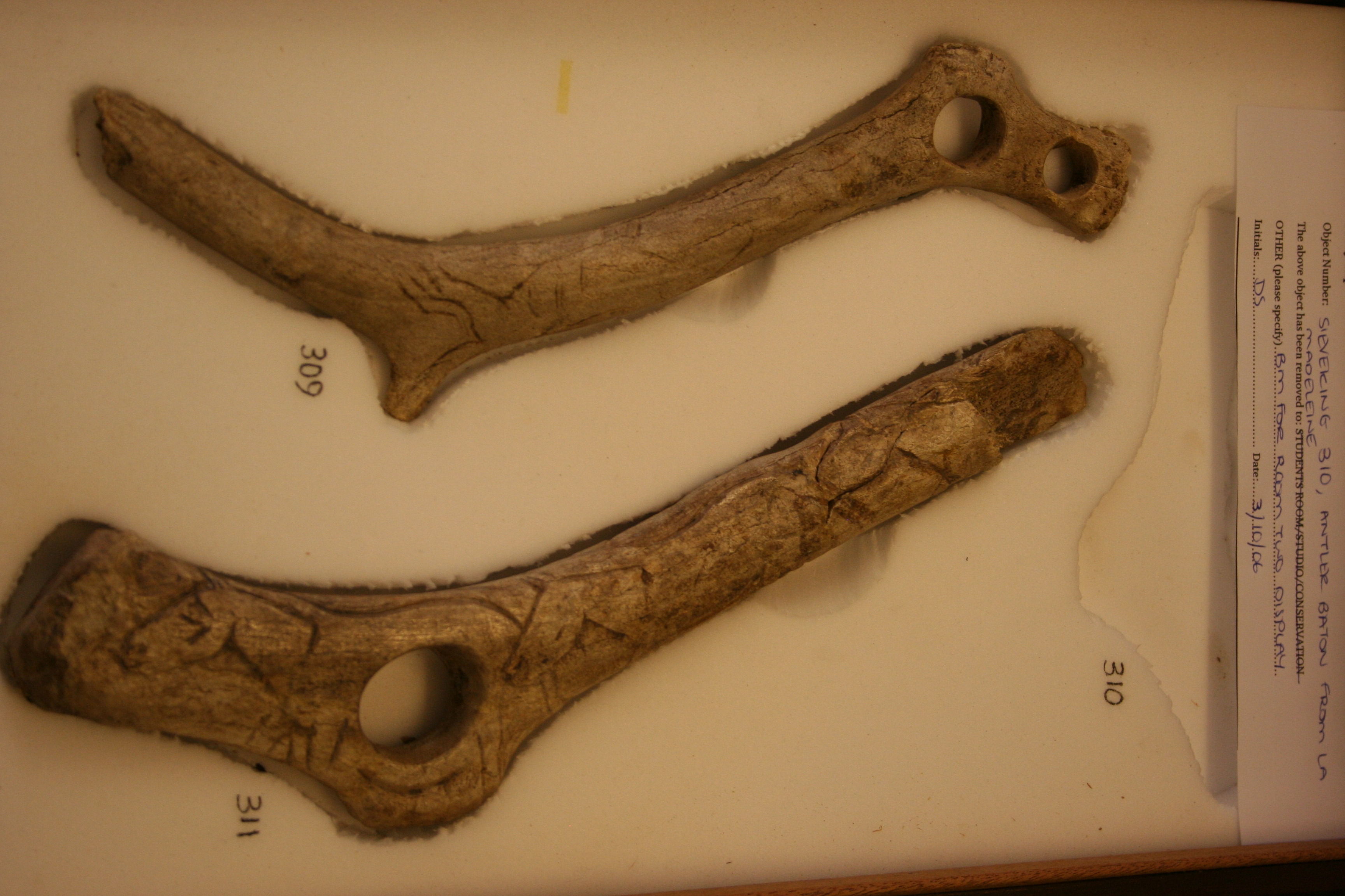 Carved bones from the GLAM event at Franks House, British Museum